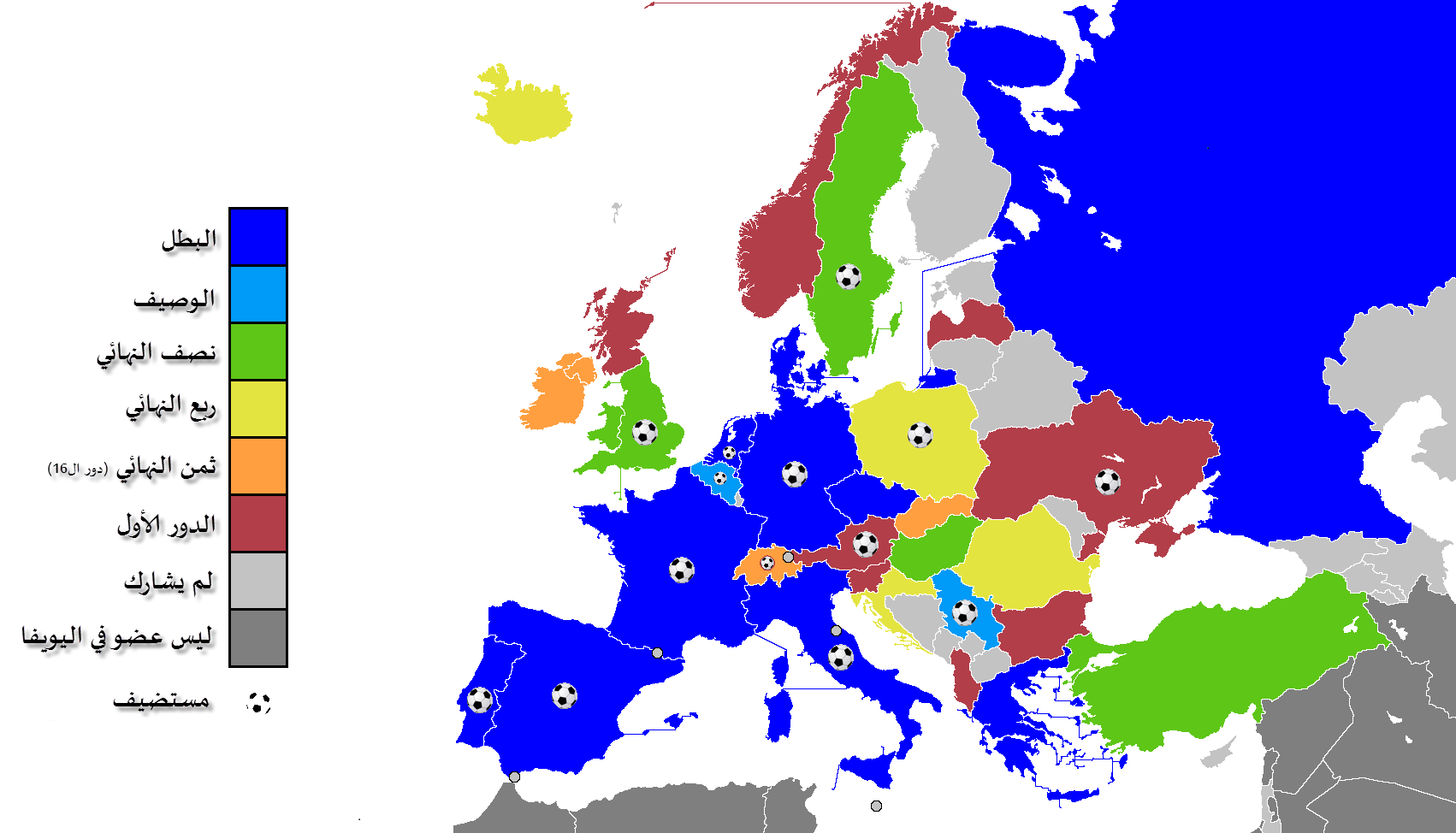 UEFA European Football Championship best results.